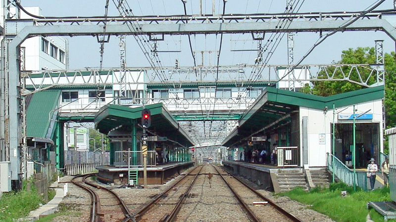 Platform of Tsurukawa Station of Odakyu Line